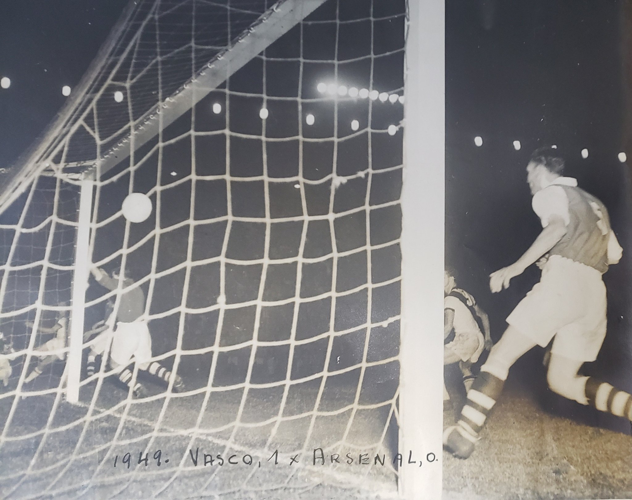 Brazilian team Vasco da Gama in a football match against english Arsenal FC. 1949, São Januário stadium. Unknown photographer.